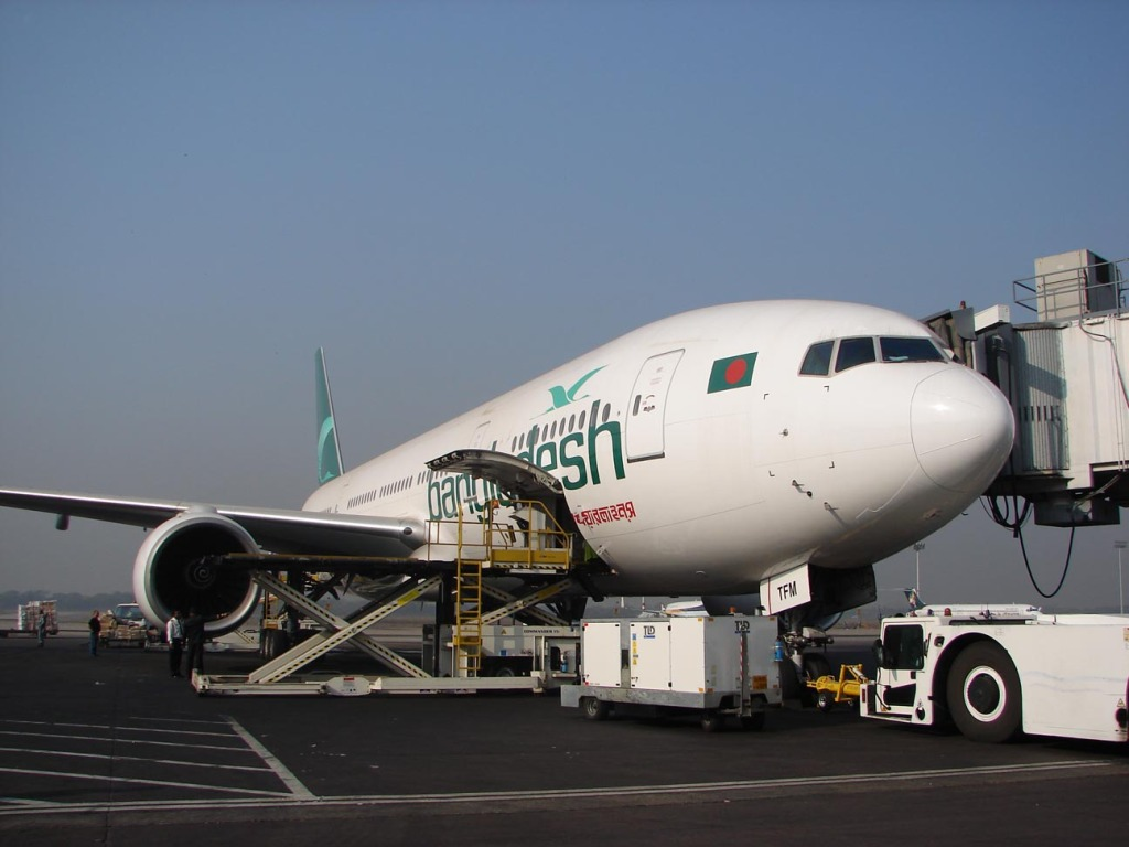 Biman's Boeing 777-200ER being loaded for it's maiden commercial flight to London Heathrow at Shahjalal International Airport.